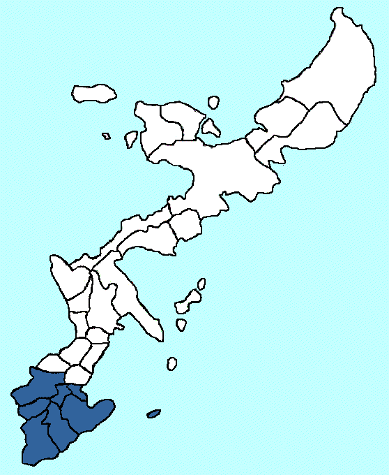 South Region of Okinawa Island